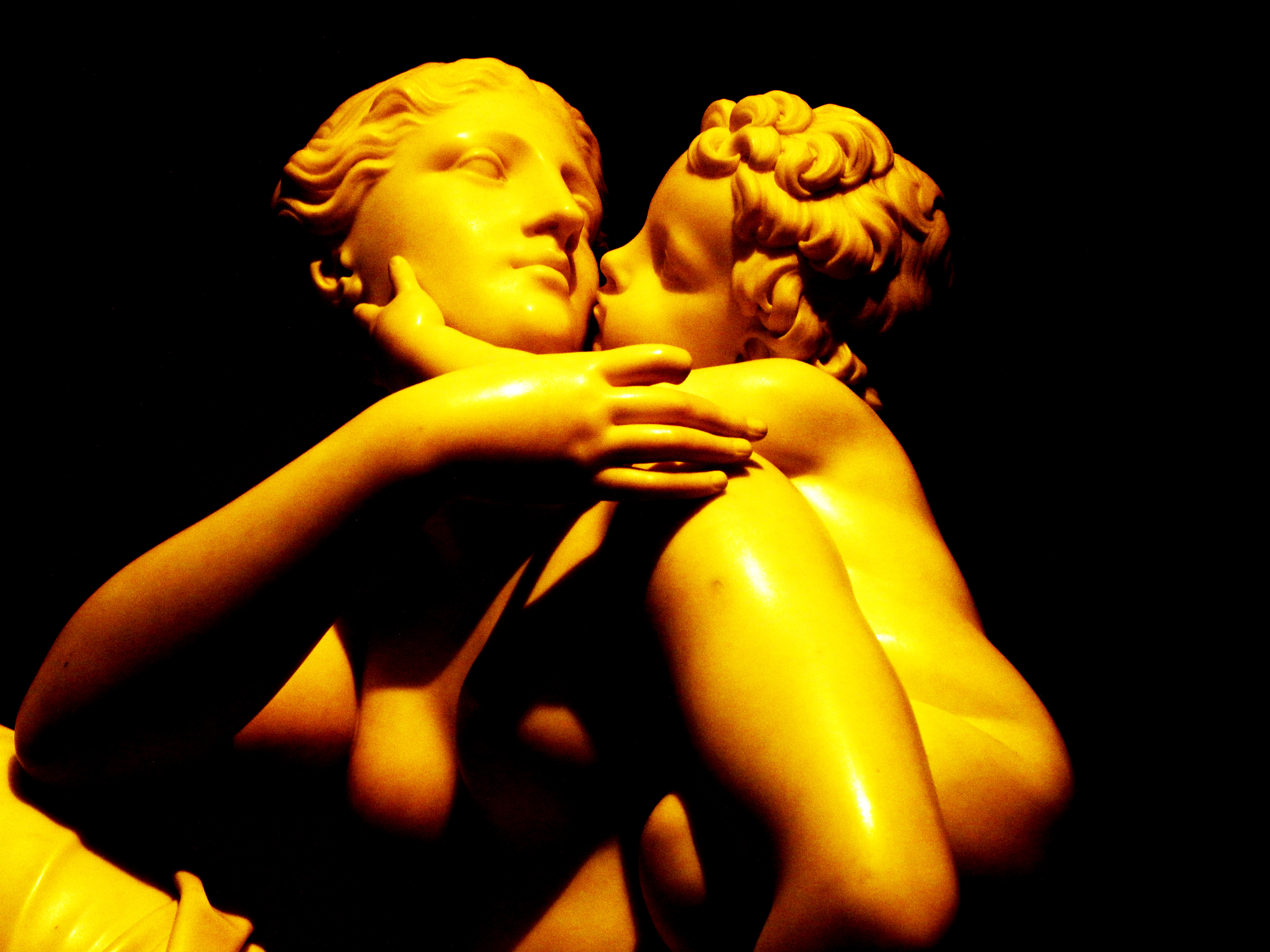 Maternal Affection Edward Hodges Baily (1788-1861) Signed and dated 1837 London Marble According to an article in the Art Union for 1847, in 1823 Baily exhibited a plaster model of this composition, but no commission for a large marble resulted. Undeterred, he carved one in marble the following year. On finding himself unable to sell it, he arranged to dispose of it by lottery, along with another, smaller work. Only half the lottery tickets were sold (amounting to �550 for Baily). They included the one for the smaller work, but not the ticket for Maternal affection. The winner of the smaller work turned out to be the wealthy Duke of Buccleugh. The determined Baily finally managed to dispose of Maternal affection for �350 in a private sale to Joseph Neeld, a director of a silversmith company. But there appears to be some discrepancy in this Art Union account. Baily exhibited a work entitled Affection etc at the Royal Academy in London in 1823 (item no. 1102); in 1825 he exhibited Affection: a group at London's British Institution (item no. 410), possibly the same piece. Not until 1837 did he show Group, Maternal Affection' at the Royal Academy (item no. 1179), which was probably this piece. It was later purchased by Joseph Neeld, in whose collection it remained at Grittleton House, Wiltshire, until its sale in 1964, when it was acquired by the V&A. Another version - and there may be others - is in the Fitzwilliam Museum, Cambridge. It is signed and dated '1841'. Maternal affection was also reproduced in multiples in reduced format in Parian ware (a granular white porcelain). Even so, Baily's best-known sculpture has to be the figure of Lord Nelson that stands on the high column in London's Trafalgar Square. Collection ID: A.33-1964 This photo was taken as part of Britain Loves Wikipedia in February 2010 by Ayesha Azhar.